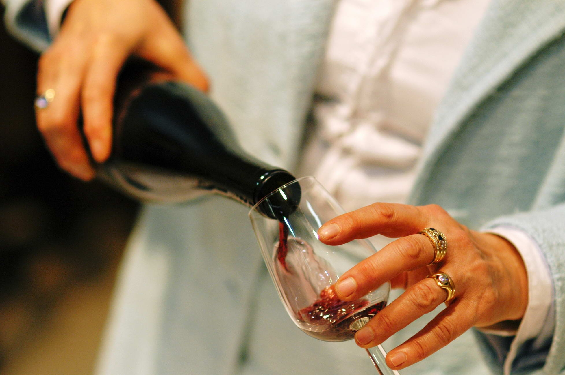 A red wine being poured into a wine glass to serve